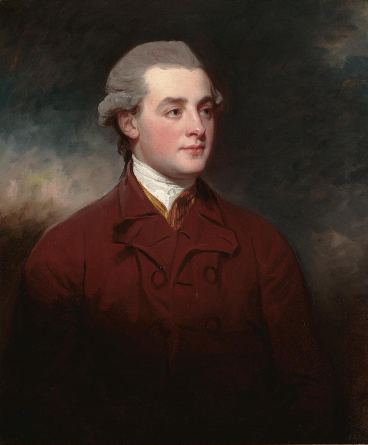 Portrait of Richard Griffin, 2nd Baron Braybrooke (1750–1825), English politician and peer.